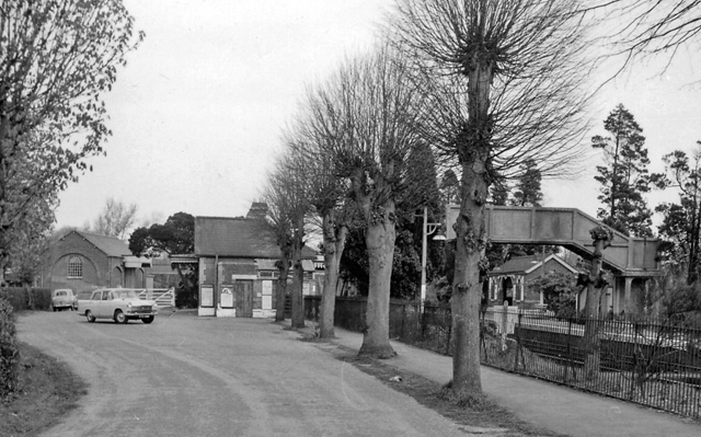 Bagshot Station. Exterior view NE towards Ascot; line from Frimley and Ash Vale